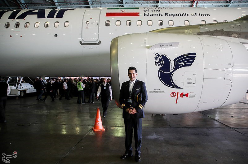 Arrival of Iran Air Airbus A321 (EP-IFA) to Mehrabad International Airport